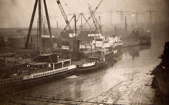 A & J Inglis shipyard from the bridge over the River Kelvin in 1946. On the left is Clyde paddle steamer Jeanie Deans. Behind are two of the four tankers, Empire Tedport, Empire Tedship, Empire Tedmuir and Empire Tedrita, built by Inglis in 1946-47. Also shown is the paddle ship HMS Aristocrat being converted to Talisman. She was the only diesel electric paddle vessel built on the Clyde.